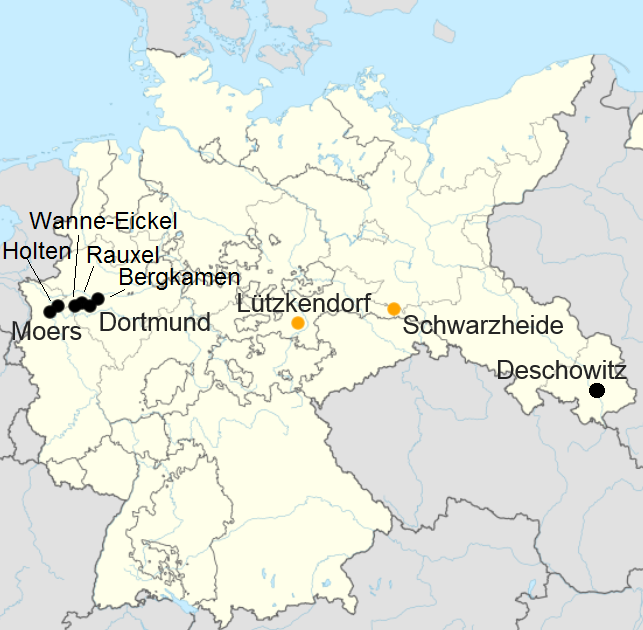 Locations of the Fischer-Tropsch units in Germany 1944